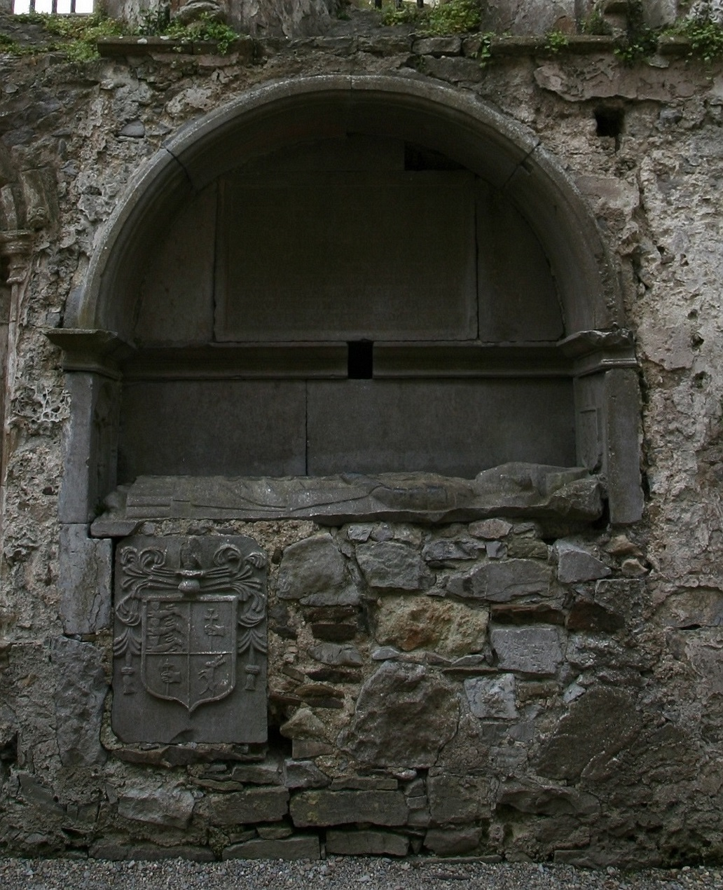 Catedral